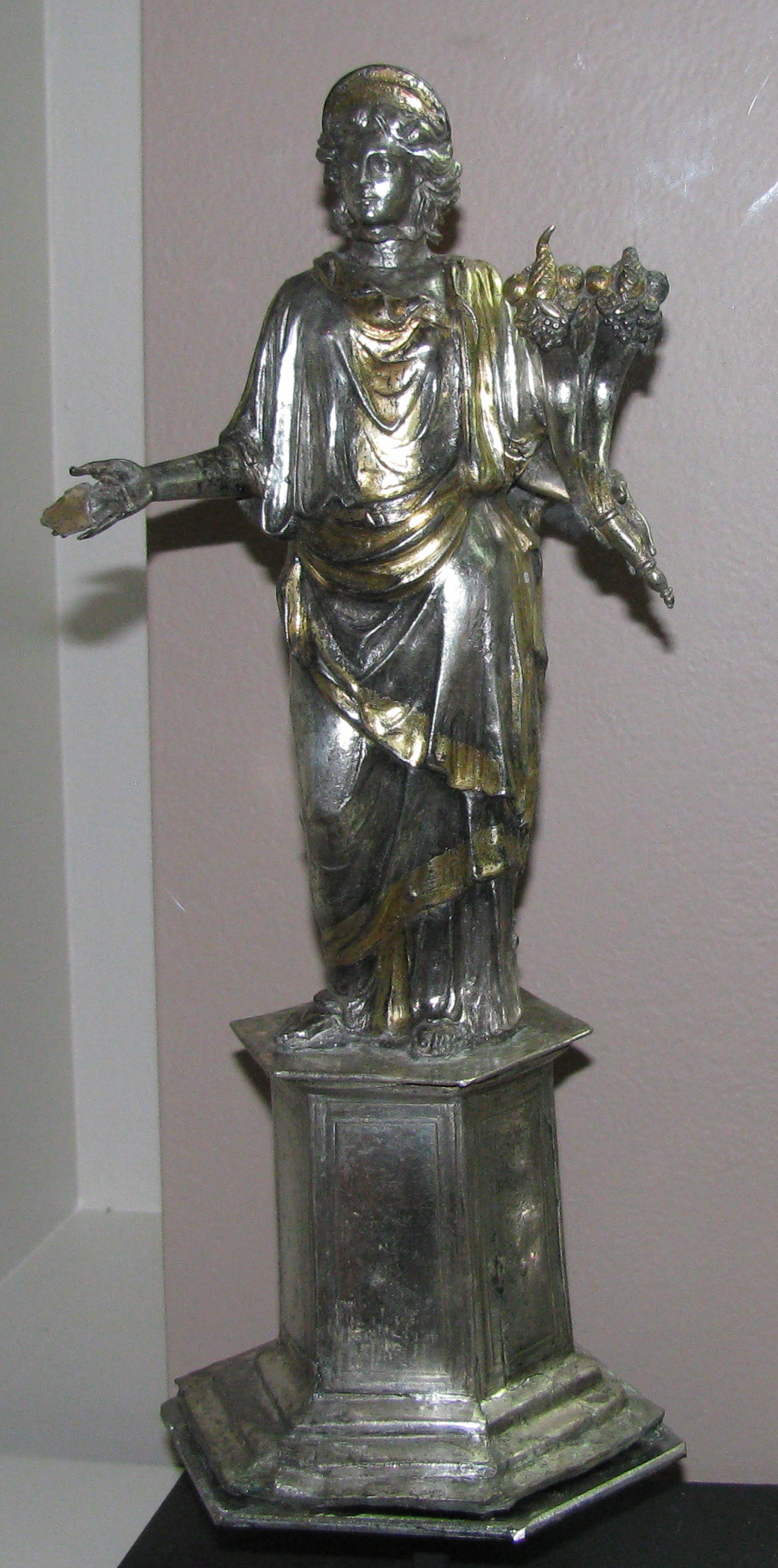 Silver statuette of goddess of Abundantia - treasure found at Vaise - Lyon Gallo'roman museum - Lyon - France